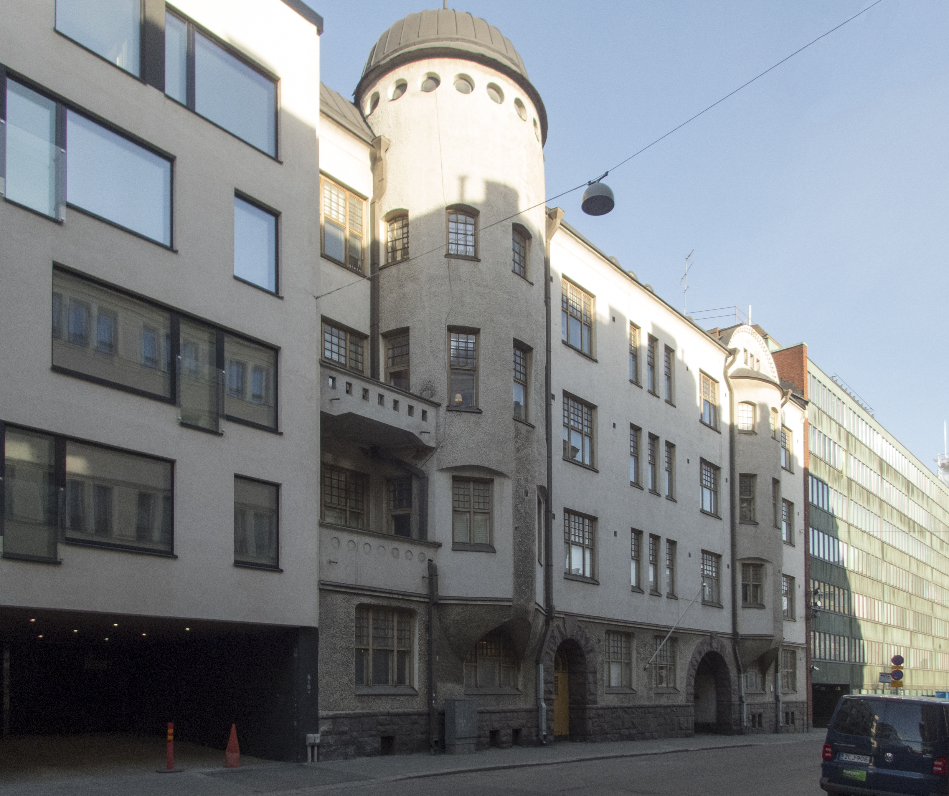 Albertinkatu 27, Helsinki, architect Gustaf Estlander, built in 1906